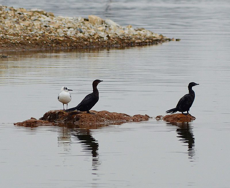 This is a photography of Natura 2000 protected area with ID GR1260001